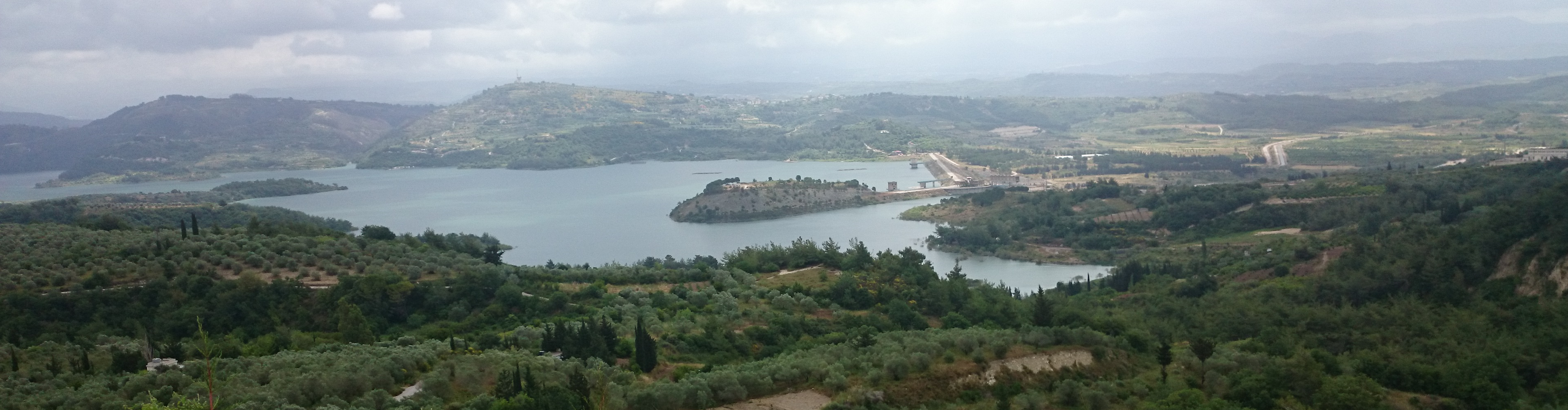 Panoramic view of Ayn al-Bayda in the countryside of Latakia, Syria